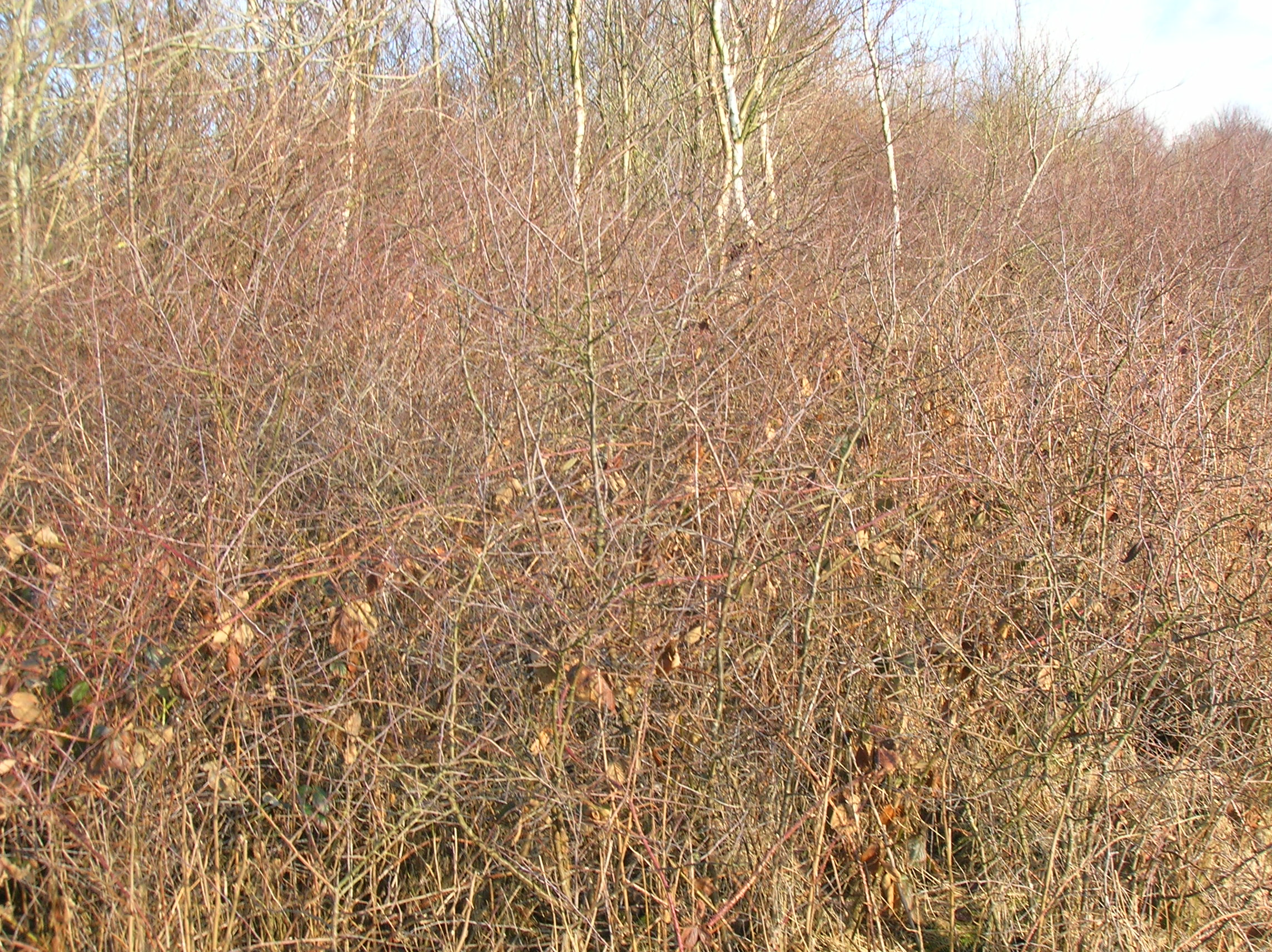 A Blackthorn thicket - Prunus spinosa - infected with Taphrina pruni. Eglinton Country Park, Irvine, Ayrshire, Scotland